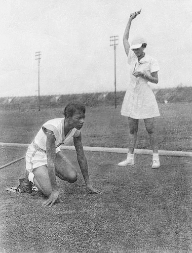 Catherine Hardy training for the Olympics